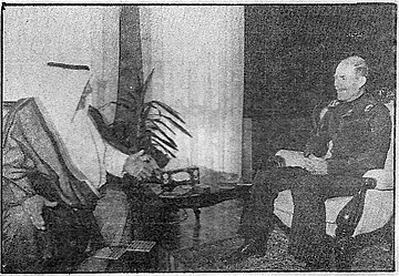 Iraqi politician (deputy chairman of the Revolutionary Command Council) Izzat Ibrahim ad-Duri (right) with a foreign (Kuwaiti) guest